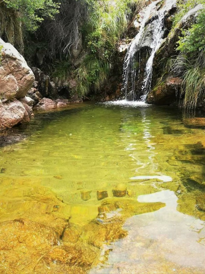 Foto de una cascada